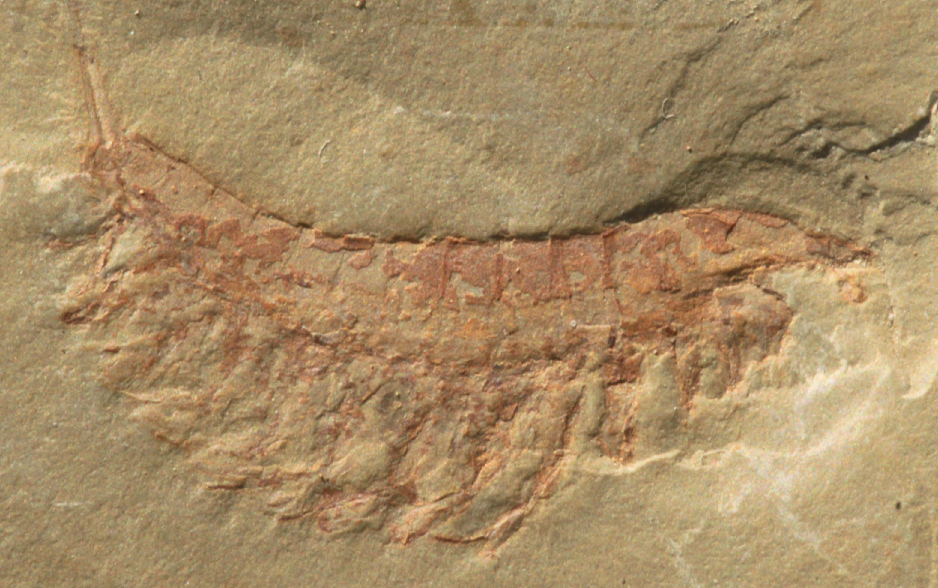 Leanchoilia illecebrosa, Order Leanchoiliida, Family Leanchoiliidae, 19mm front to back, lateral view, collected at Chengjiang, Yunnan, China, from the middle Lower Cambrian (Stage3)